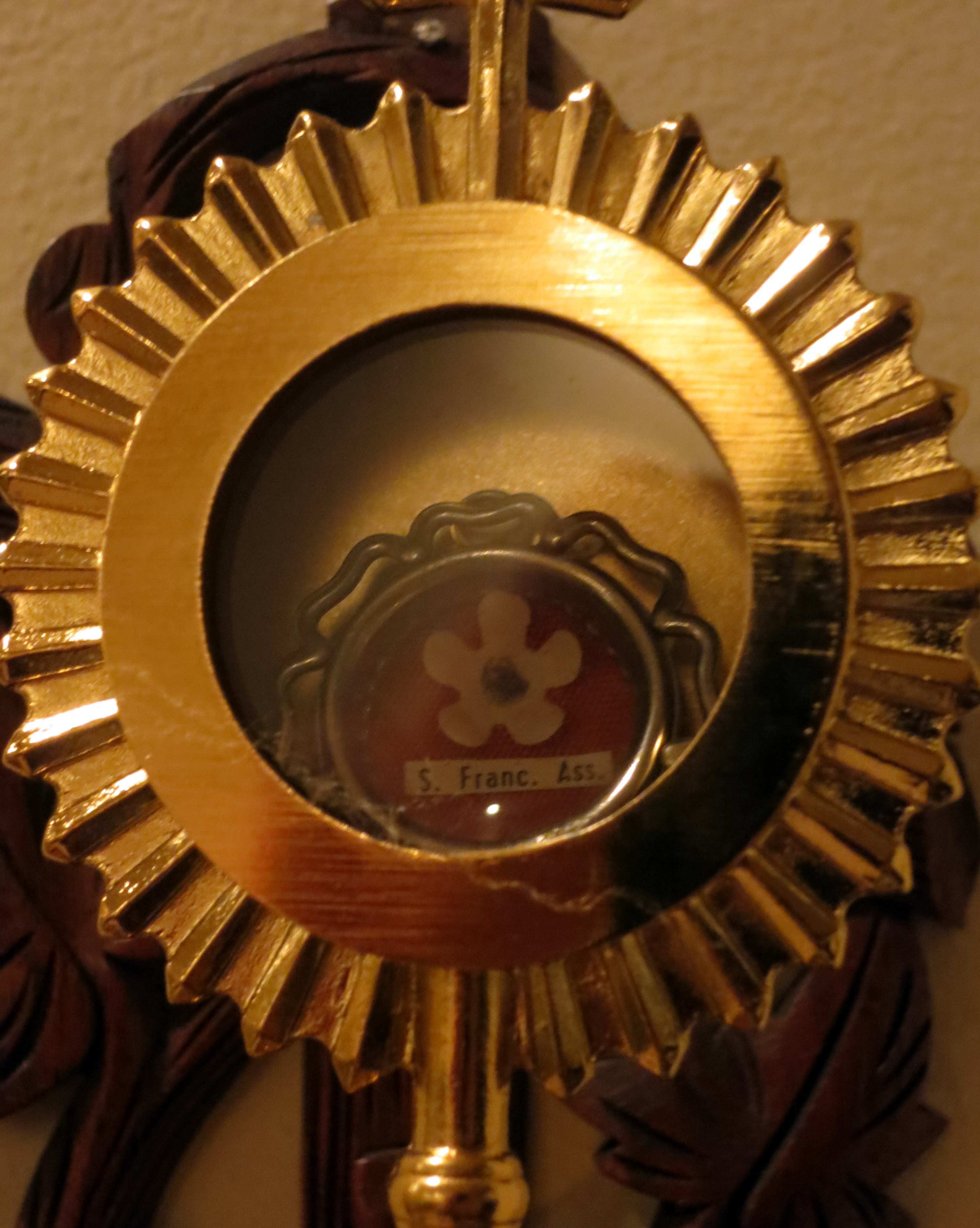 Our Lady of Perpetual Help Catholic Church (Grove City, Ohio) - St. Francis of Assisi relic